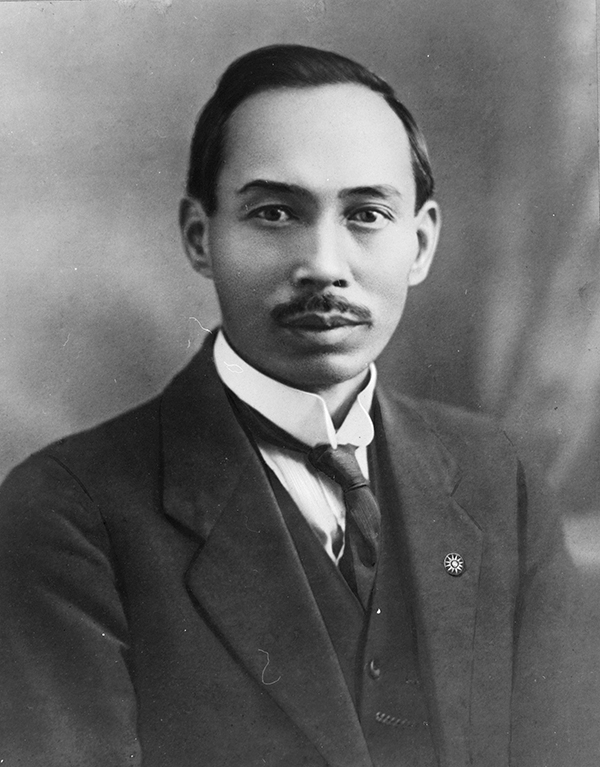 A black and white studio portrait of a man of Chinese heritage aged in his 30s, wearing a suit and tie with a small badge on his lapel. He has neatly combed hair and a black moustache.